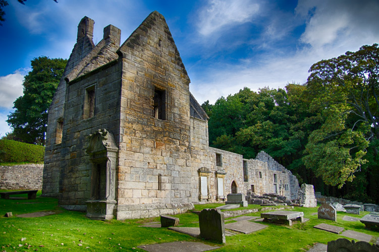 St. Bridget's Church in Dalgety Bay